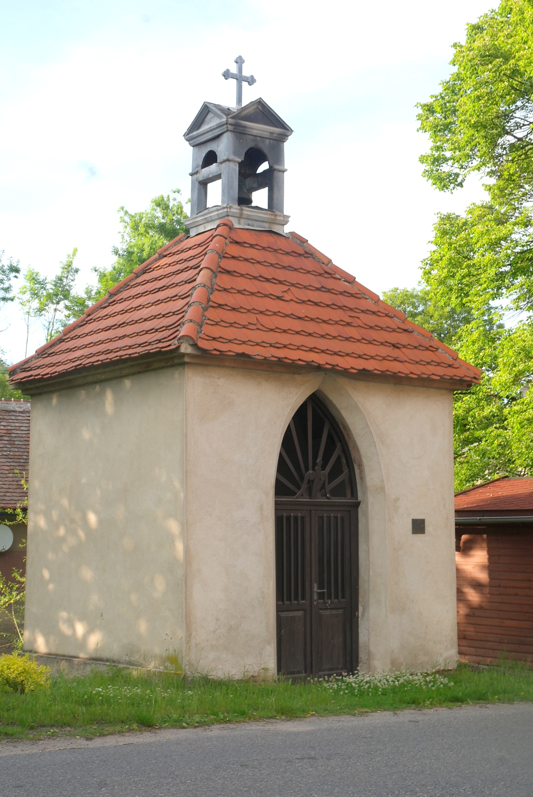 Chapel of St. Wenceslas, village Debrno square, municipality Dolany, Mělník district